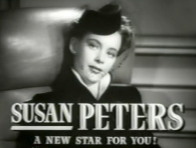 Cropped screenshot of Susan Peters from the trailer for the film Random Harvest